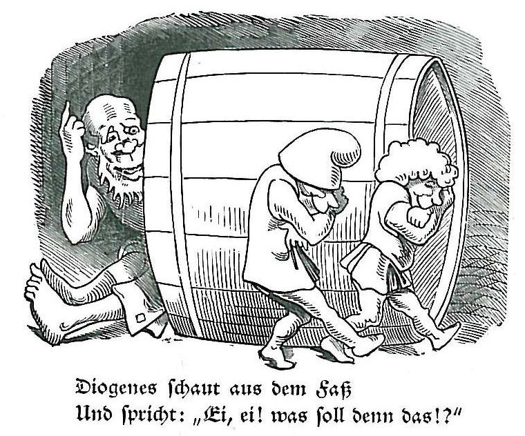 Illustration of Wilhelm Busch's story "Die bösen Buben von Korinth" (from: Fliegende Blätter und Münchener Bilderbogen 1859-1871)